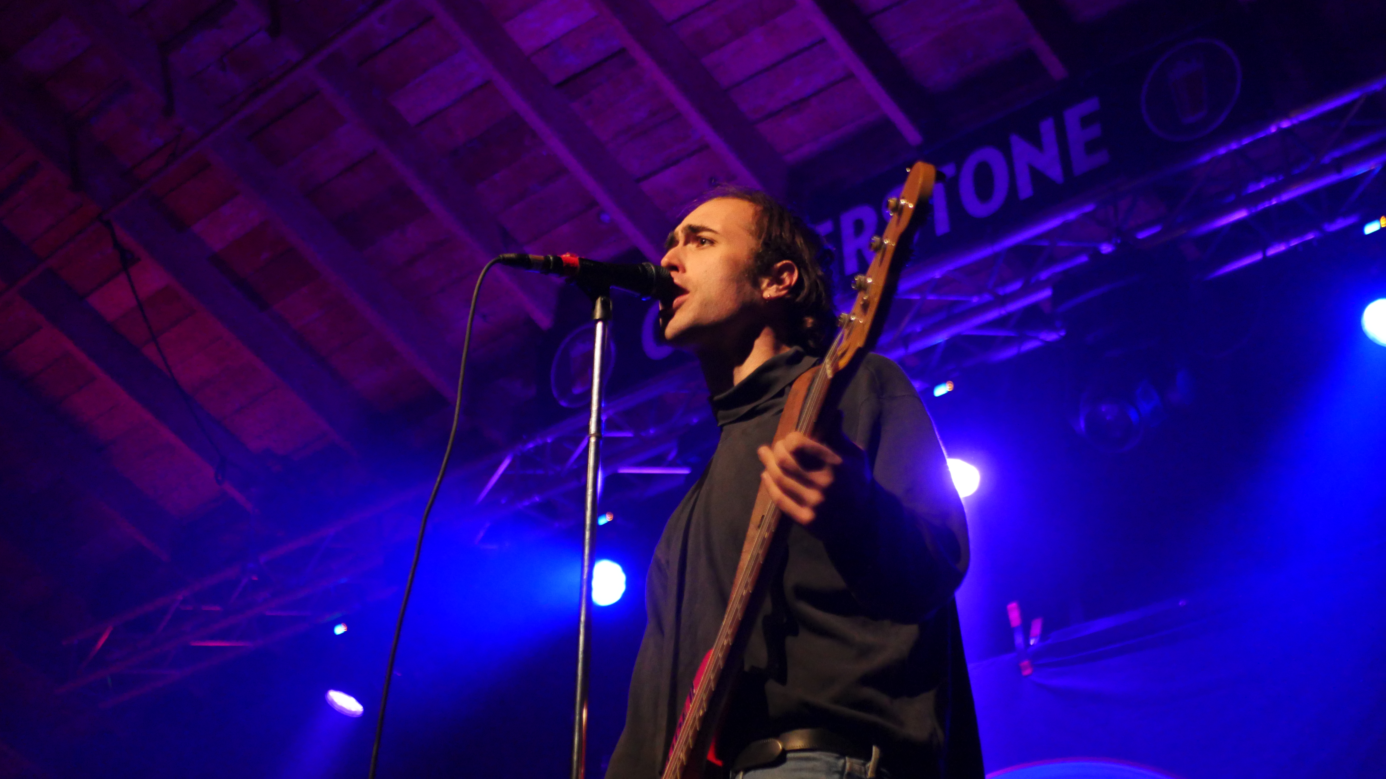 Photograph by Josh Jaffe (@josh_jaffe)